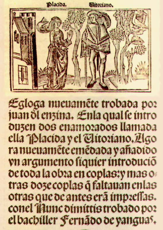 Cover of Juan del Encina's "Égloga de Plácida y Victoriano".